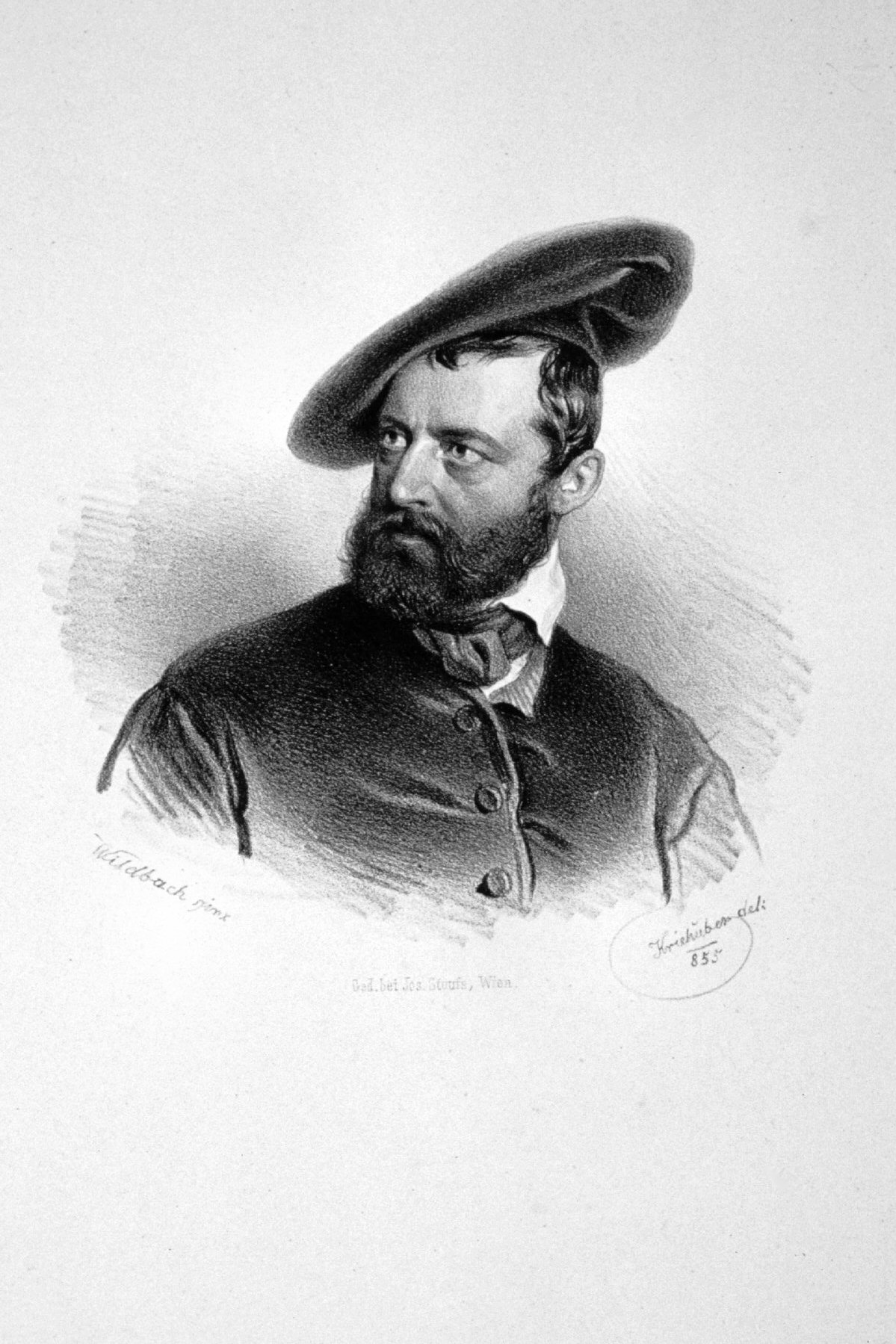 Johann Matthias Ranftl